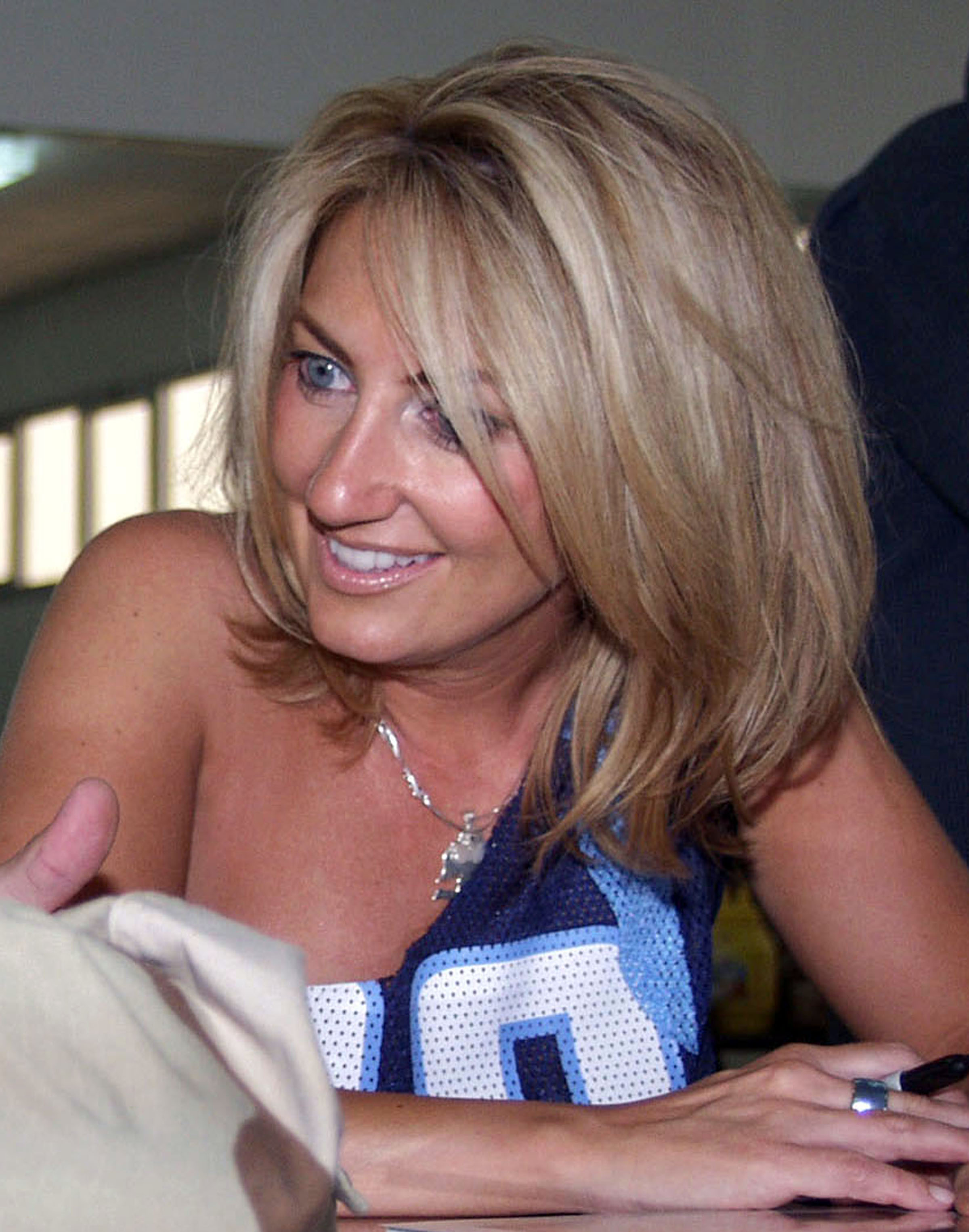 Lee Ann Womack signing an autograph for an American soldier, June 19, 2003. Womack is listening to Senior Airman Arturo Moreno, a firefighter assigned to the 386th Expeditionary Civil Engineer Squadron. Her meet-and-greet visit to the 386th Air Expeditionary Wing on June 19, 2003 was part of a USO-sponsored tour of nearly a dozen Southwest Asia operating locations. Moreno is deployed from his home station at Spangdahlem Air Base in Germany. The photo was taken by Technical Sergeant Dan Neely.)